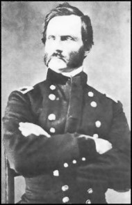 Major General James Henry Carleton (1814–1873) was an officer in the U.S. Army and Union army commander in the Trans-Mississippi Theater